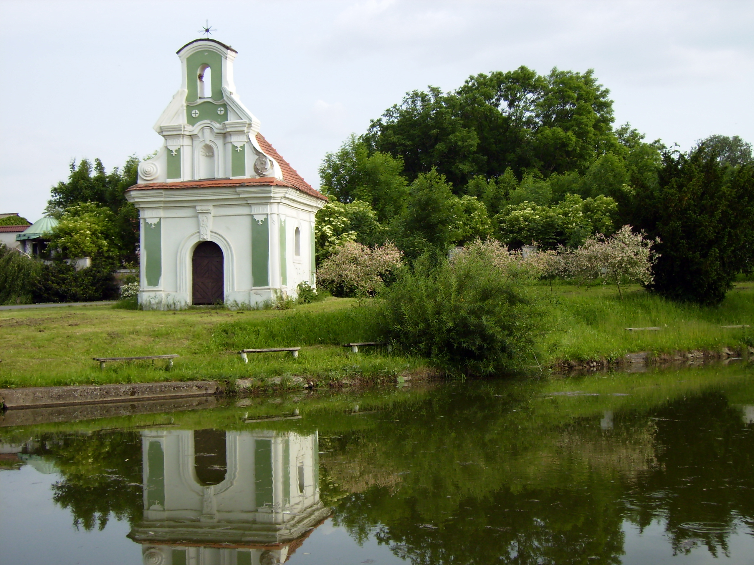 Baroque chapel of St Wenceslas in Černíky, Nymburk District, Czech Republic